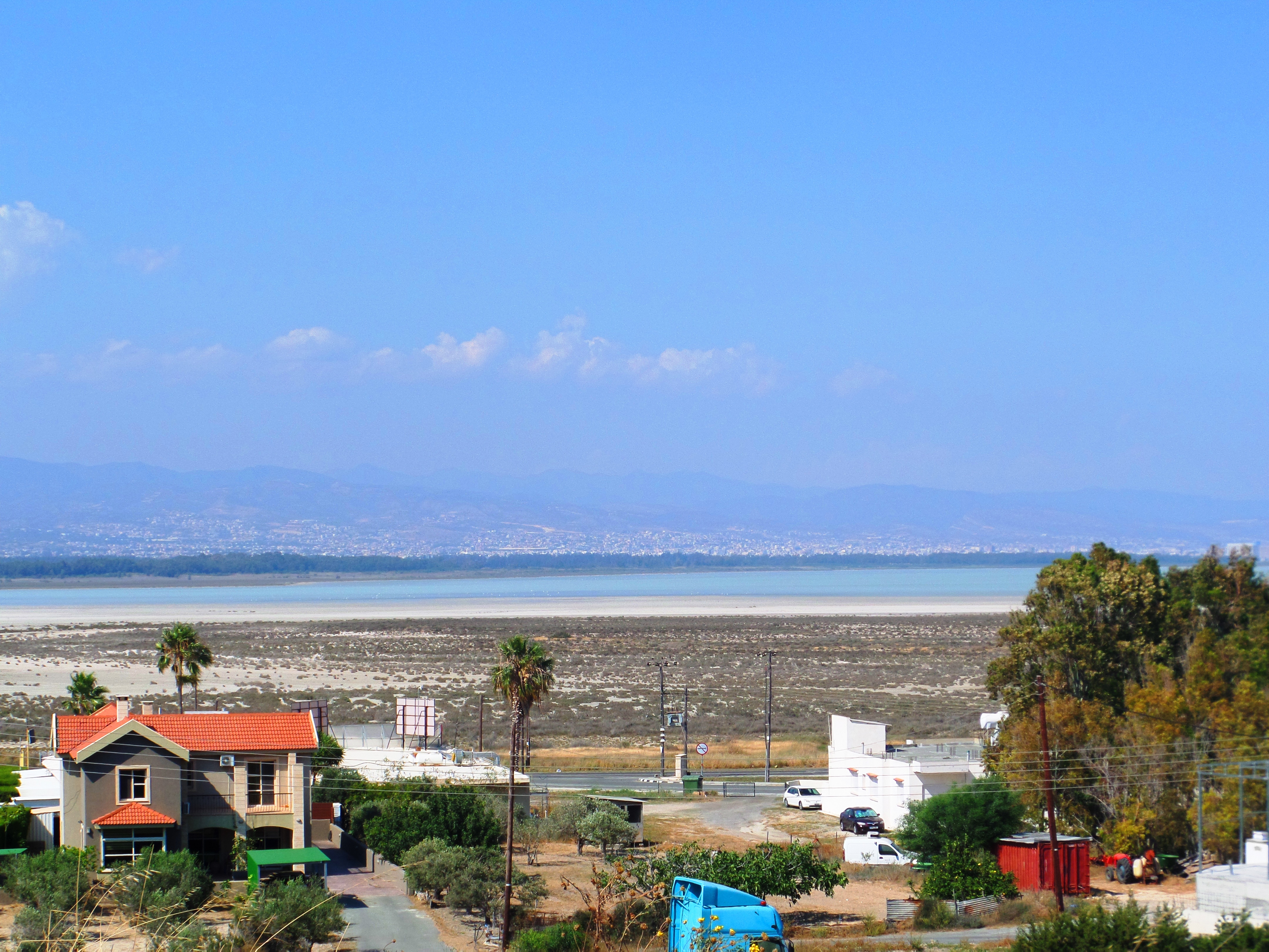 Limassol Salt Lake